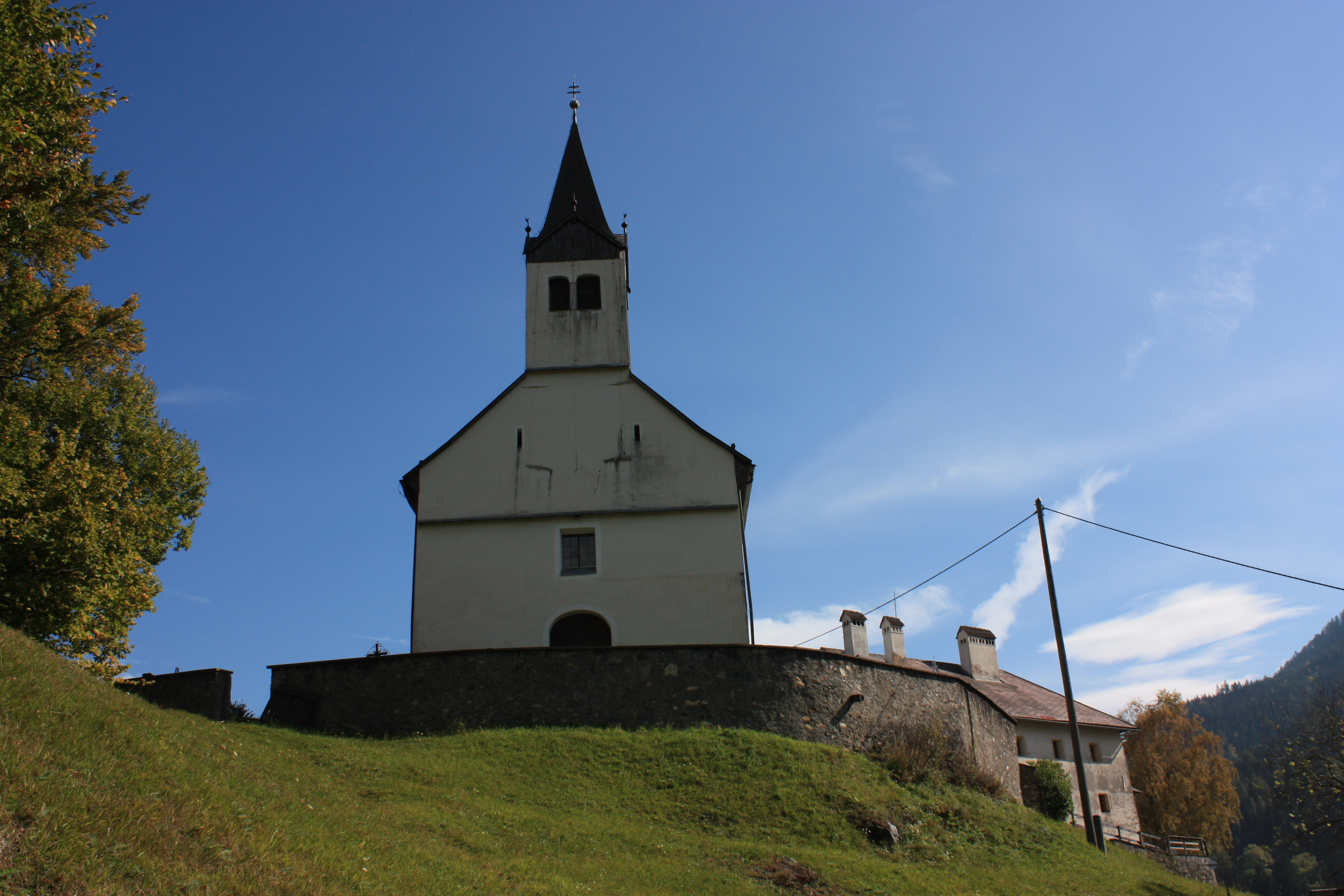 Parish church Saint Niklaus, also known as "Bichlkapelle" Locality: Stockenboi Community:Stockenboi